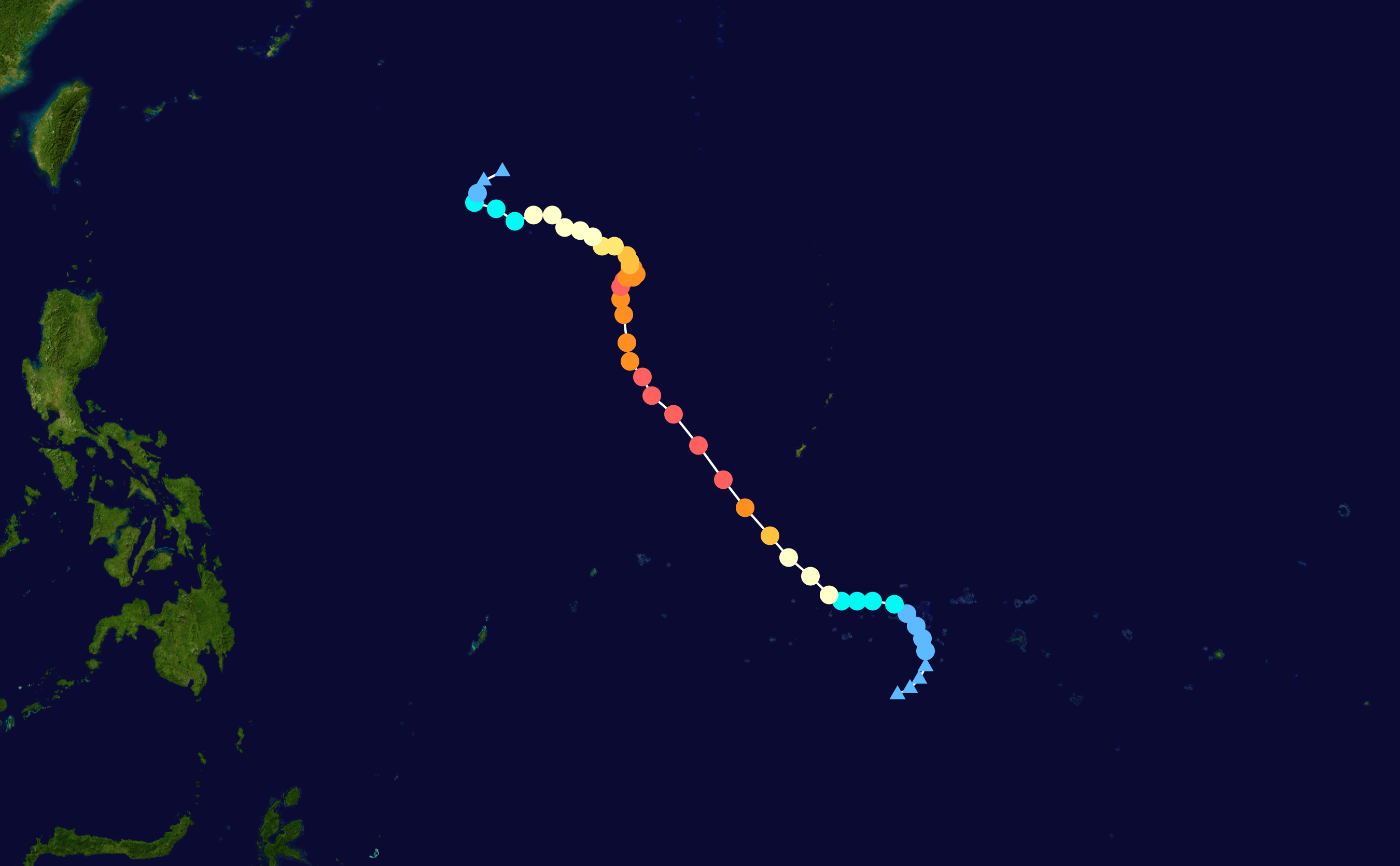 Track map of Typhoon Nida of the 2009 Pacific typhoon season. The points show the location of the storm at 6-hour intervals. The colour represents the storm's maximum sustained wind speeds as classified in the Saffir–Simpson scale (see below), and the shape of the data points represent the nature of the storm, according to the legend below. Saffir–Simpson scale Tropical depression≤38 mph≤62 km/h Category 3111–129 mph178–208 km/h Tropical storm39–73 mph63–118 km/h Category 4130–156 mph209–251 km/h Category 174–95 mph119–153 km/h Category 5≥157 mph≥252 km/h Category 296–110 mph154–177 km/h Unknown Storm type Tropical cyclone Subtropical cyclone Extratropical cyclone / Remnant low / Tropical disturbance / Monsoon depression